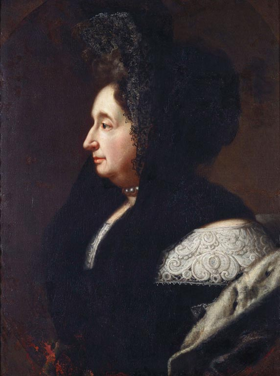 Sophia of the Palatinate (1630-1714), dowager electress of Hanover